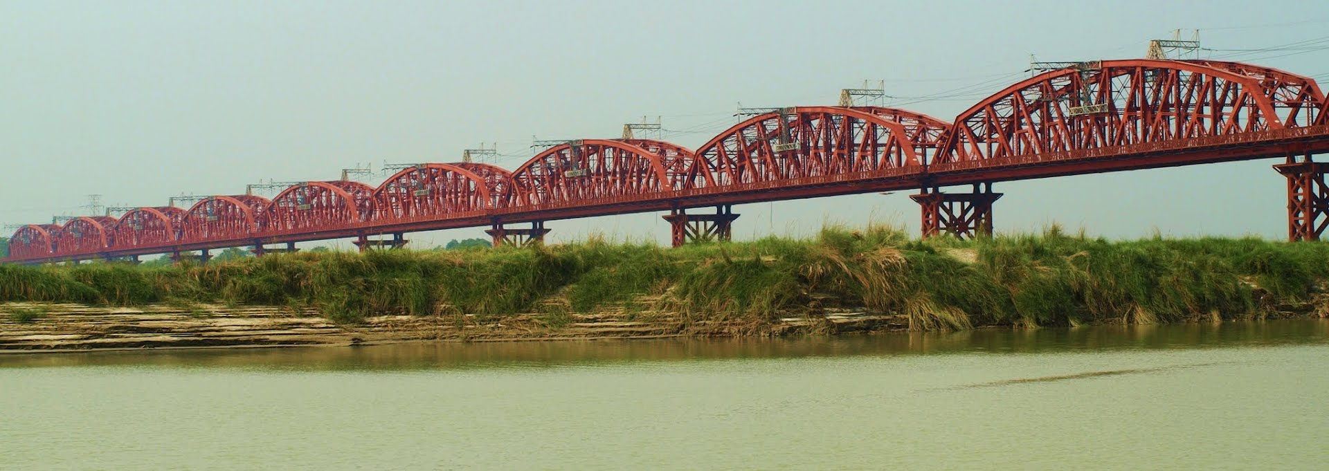 Hardinge Bridge, Padma River, Bangladesh